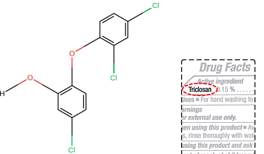 Triclosan